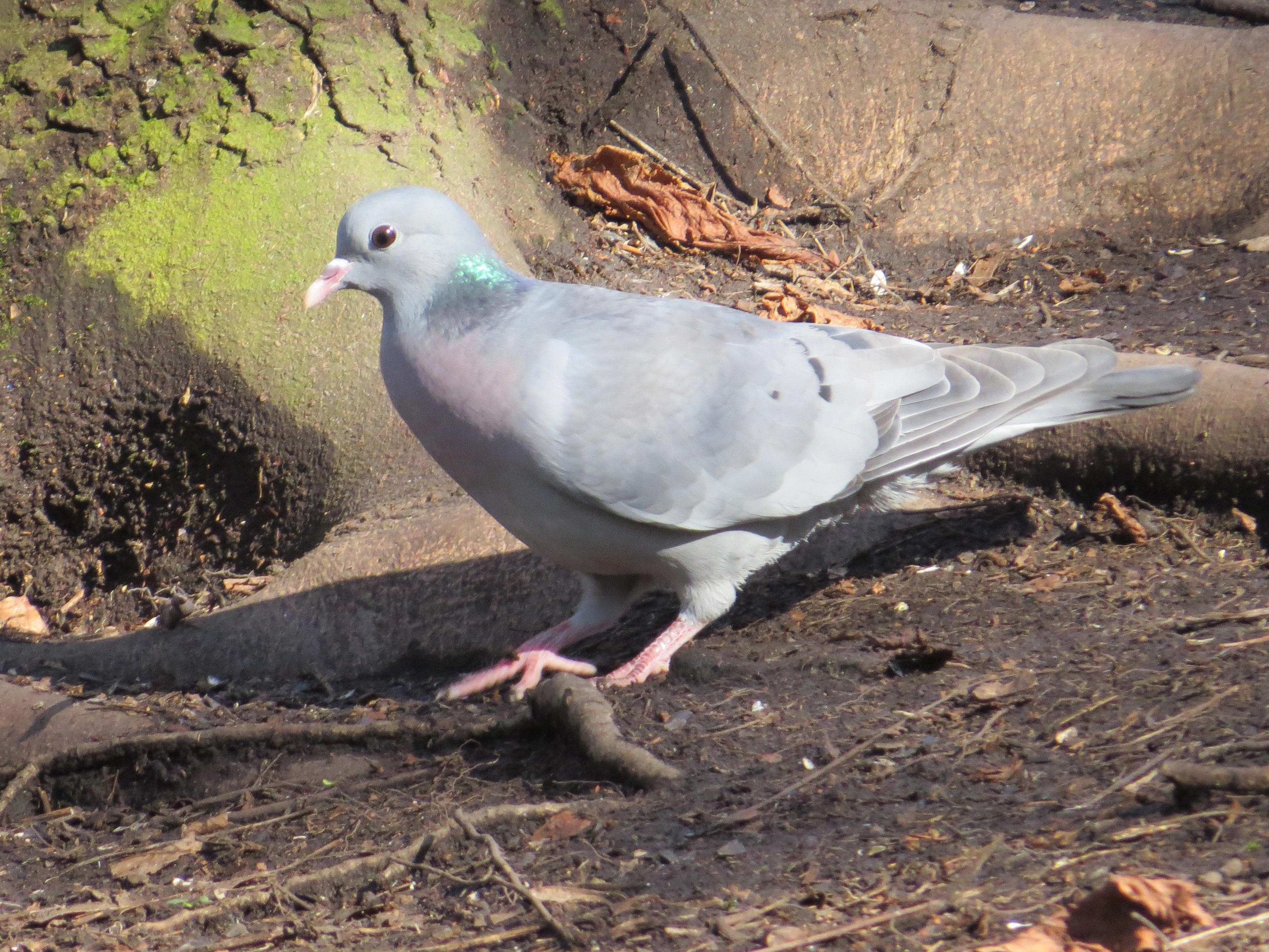 Stock Dove Columba oenas, Armstrong Park, Newcastle, Northumberland, UK